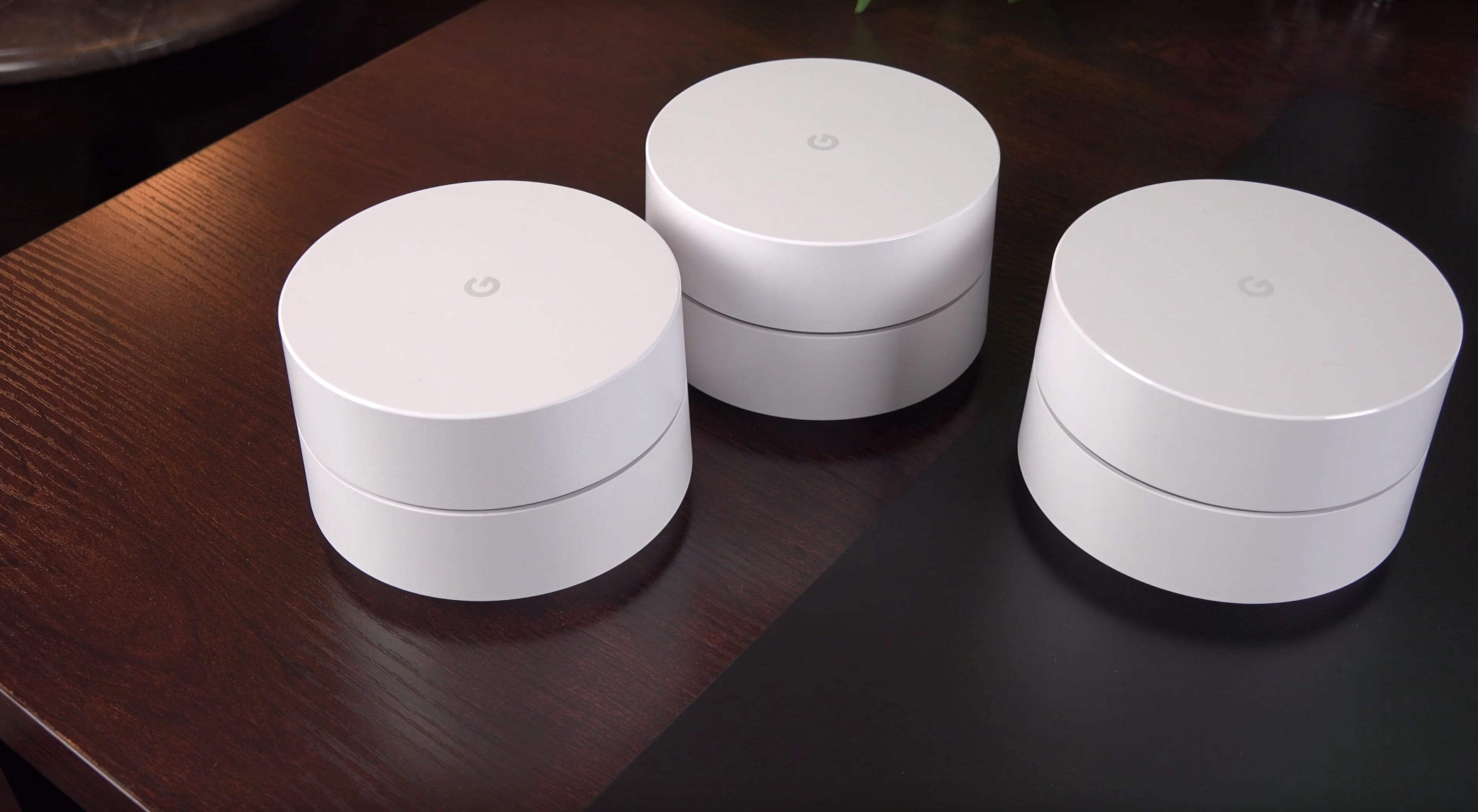 Three Google WiFi routers.